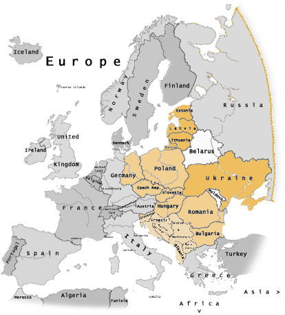 Made by User:Honymand by modifying Europe-small.png to highlight new democracies in east- and central europe (except Russia) for an article about EU.